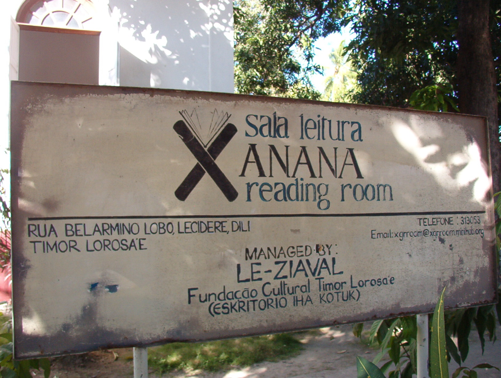 Xanana refers to Xanana Gusmao, former freedom fighter and the country's first president. The reading room is also a museum collecting books, videos, pictures and mementos from Timor Leste's fight for independence from the Indonesians.